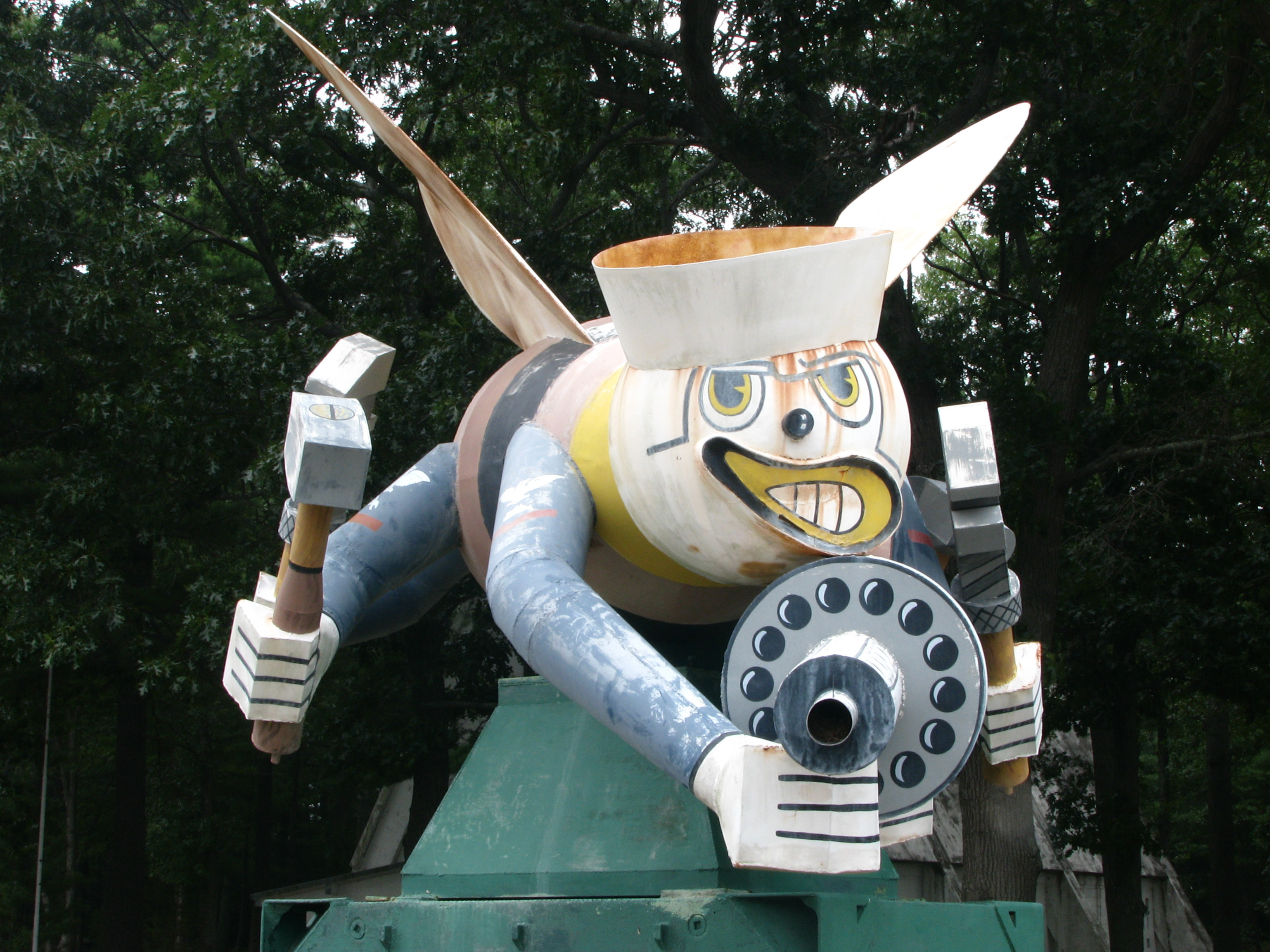 This is the Fighting Seabees Statue which currently resides about 200m from its original location at 21 Lafrate Way, North Kingstown, RI. Although it was restored in 1999, it is in deteriorating condition. It was erected in memory of the Seabees. The Seabee insignia was designed by Frank J. Iafrate. This photograph was on August 8, 2005 using a Canon PowerShot S5 IS on an overcast day.